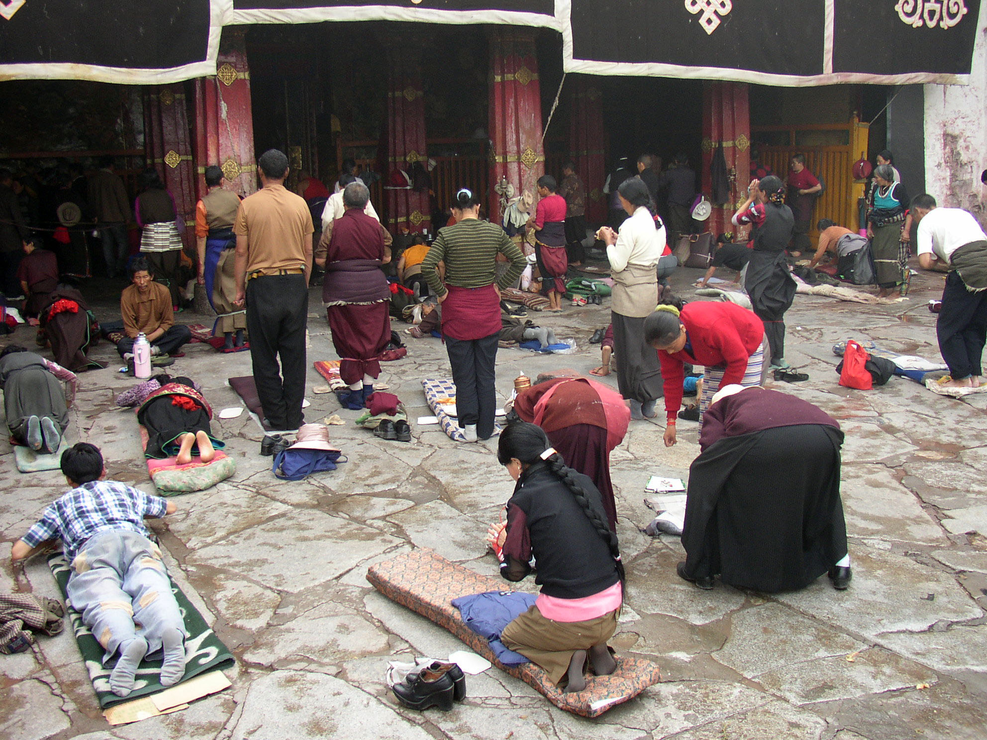 Prayers at the entry of the Jokhang temple